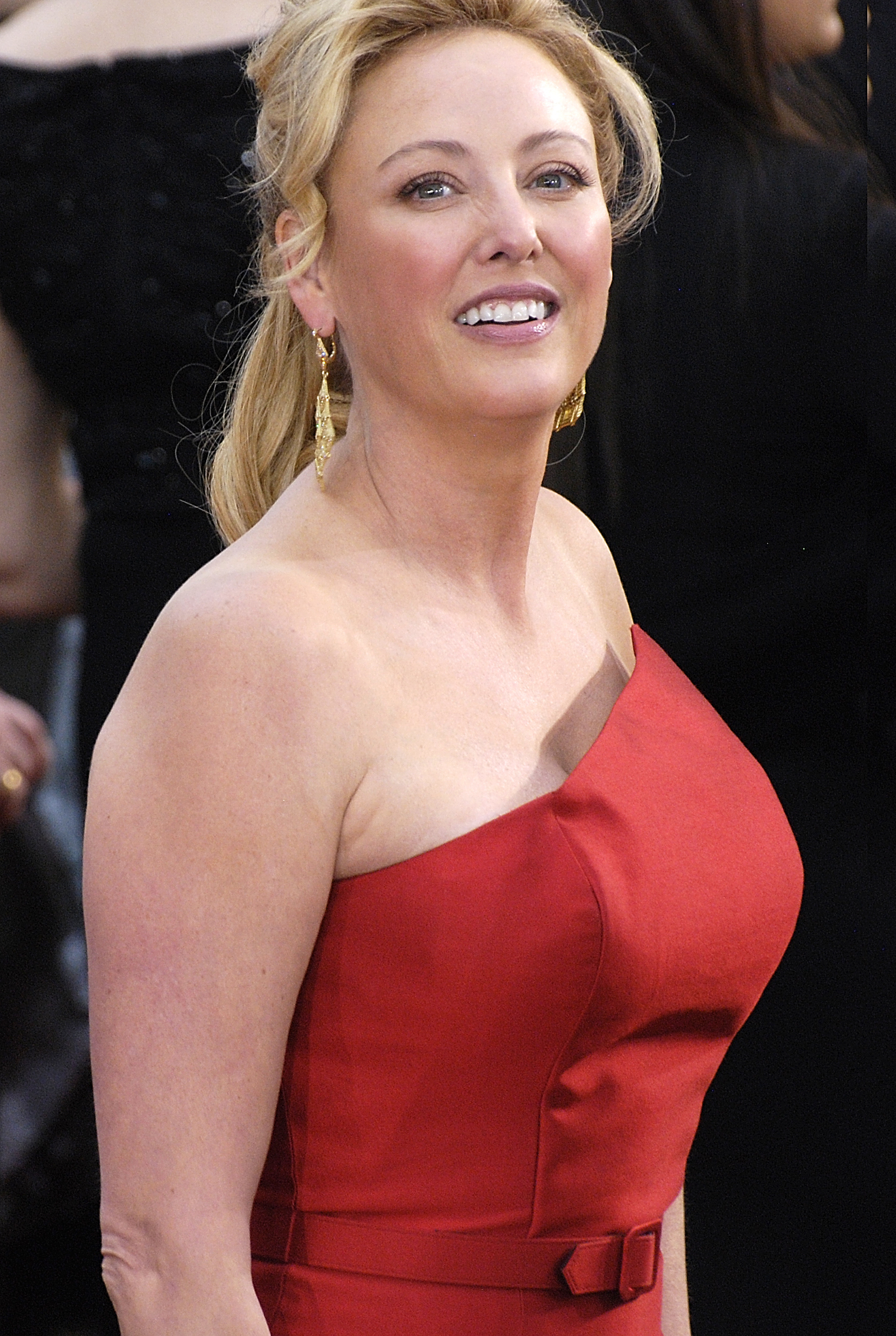 Actress Virginia Madsen at the 2009 Academy Awards